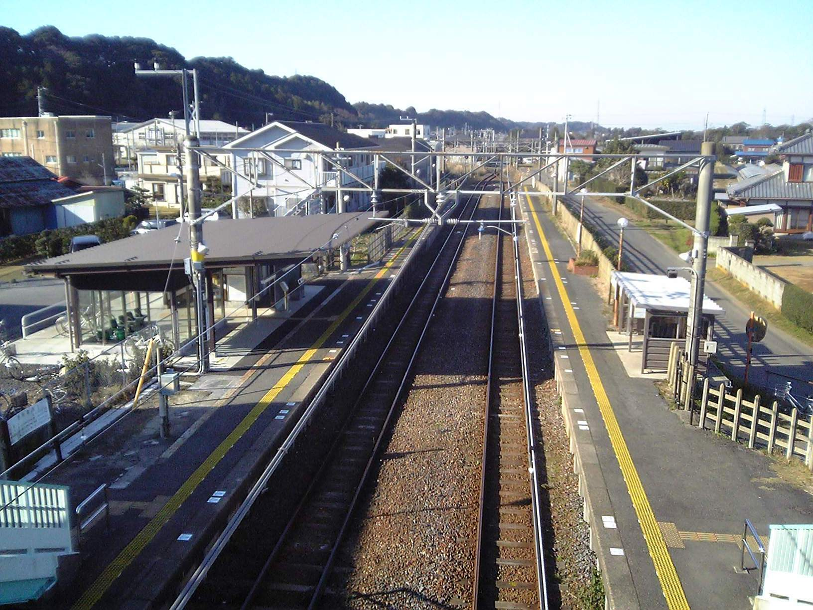 Shimosa-Toyosato Station viewed from the station bridge, towards Narita and Chiba